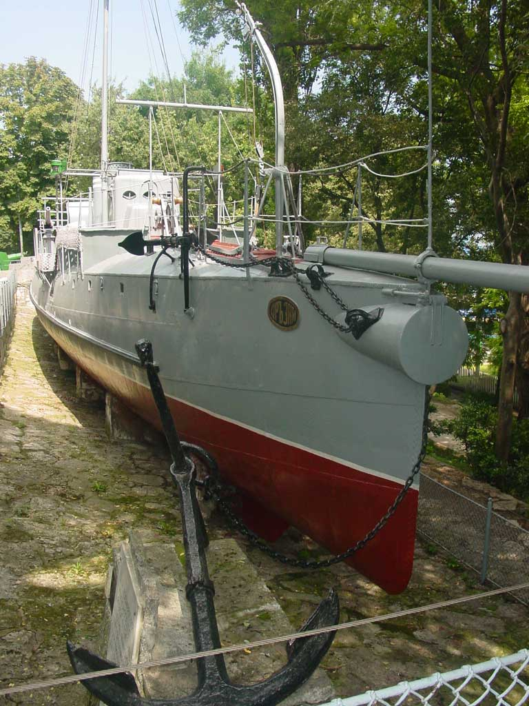 Drazki torpedo boat displayed at the National Naval Museum, Varna, Bulgaria